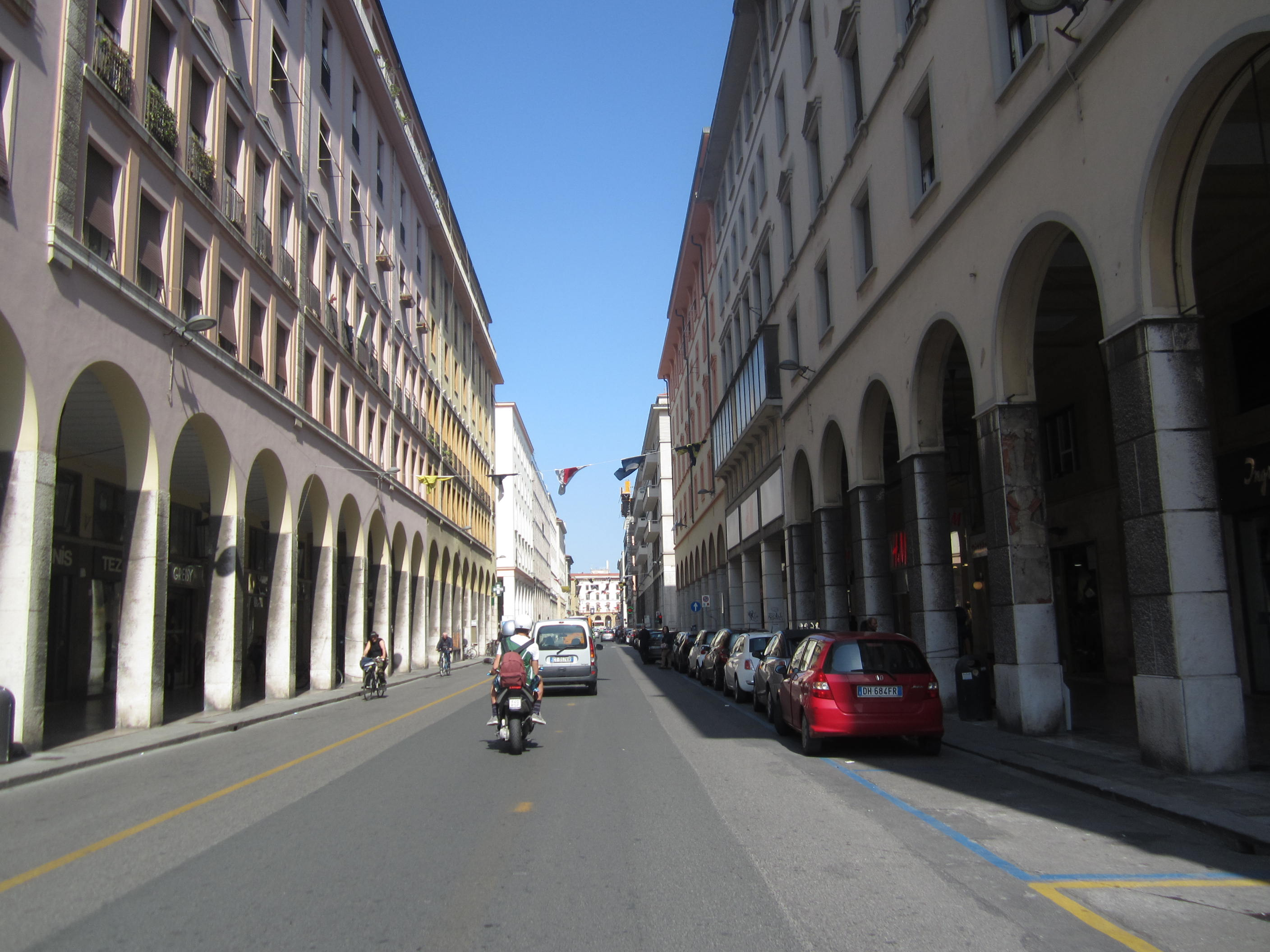 Via Grande